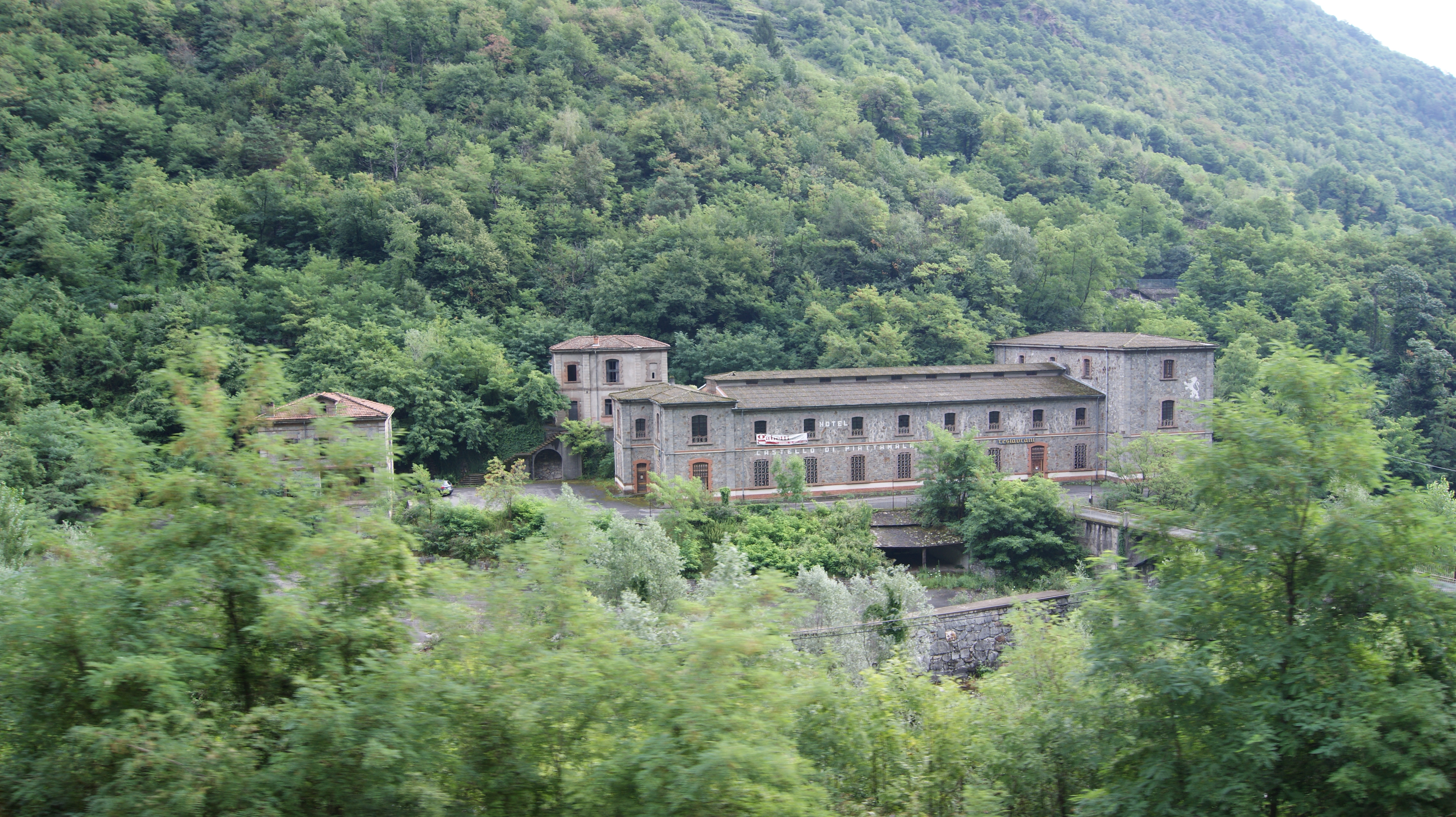 Piattamala and Hotel Castello in Tirano, Valtellina, Sondiro, Lombardy, Italy.